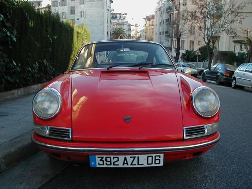 Yes it's a 912, a survivor of the 60s. There is no visible difference between 912 and a 911 of the same era. Photograph available under GFDL license. I took this picture myself with a digital camera Olympus C-960. The picture was digitally edited (framing, color balance). You do not need my permission to reuse it, but you may not claim that you took the photo yourself.